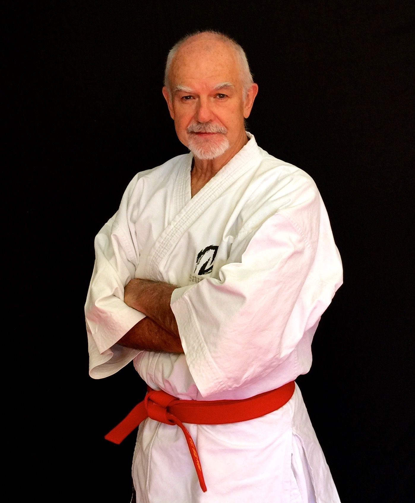 2015 profile image of Patrick McCarthy Sensei